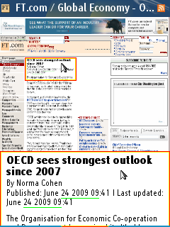 Screen shot of the BOLT Browser displaying the Financial Times in split screen mode on a Nokia N95